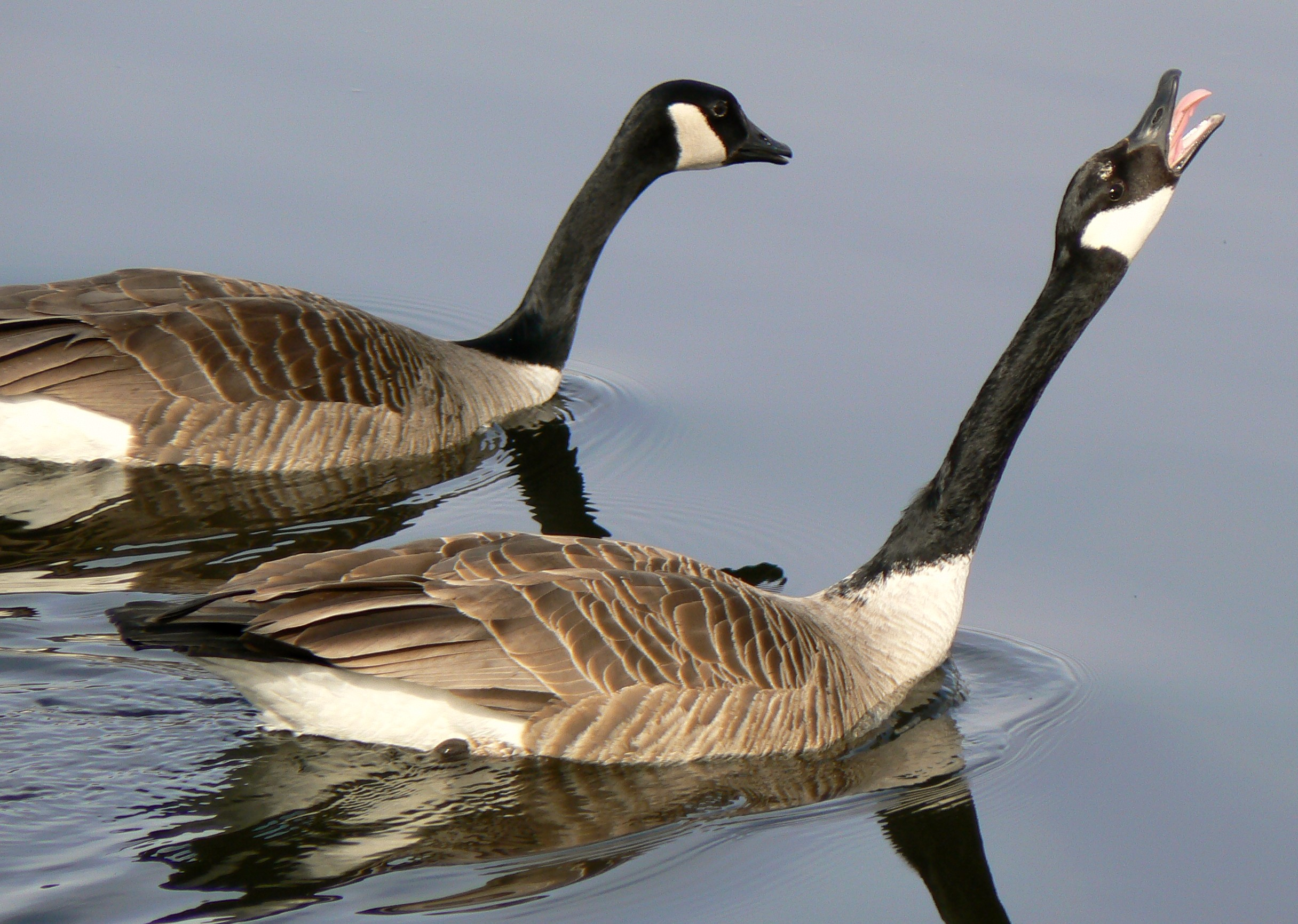 Branta canadensis Canada Goose aggressive behavior during mating season.